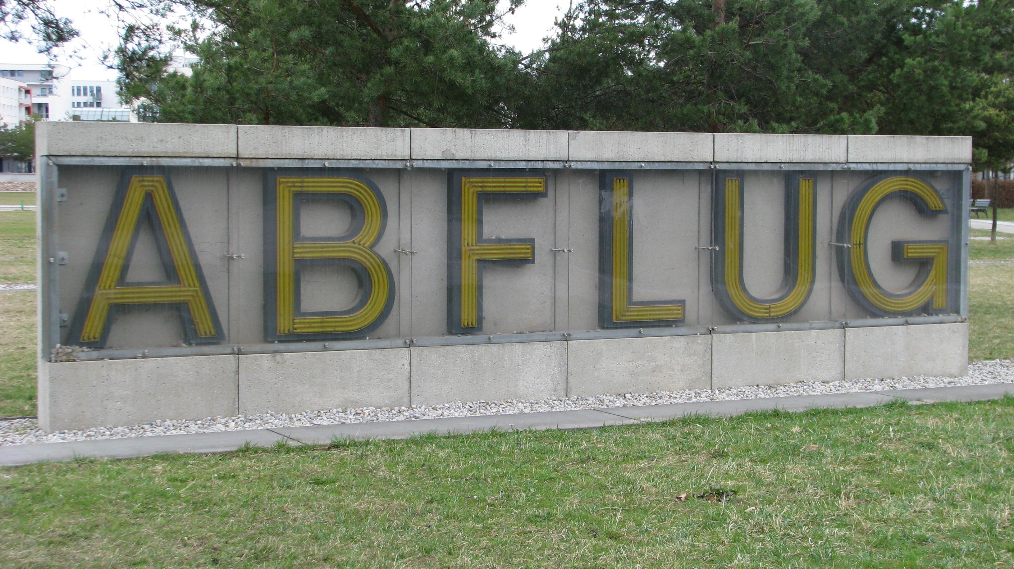 Remainder of the the old Munich airport Riem - Departure Sign - Picture from 2010